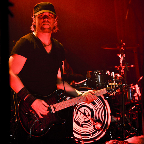 Peredur ap Gwynedd - guitarist of australian drum and bass band Pendulum